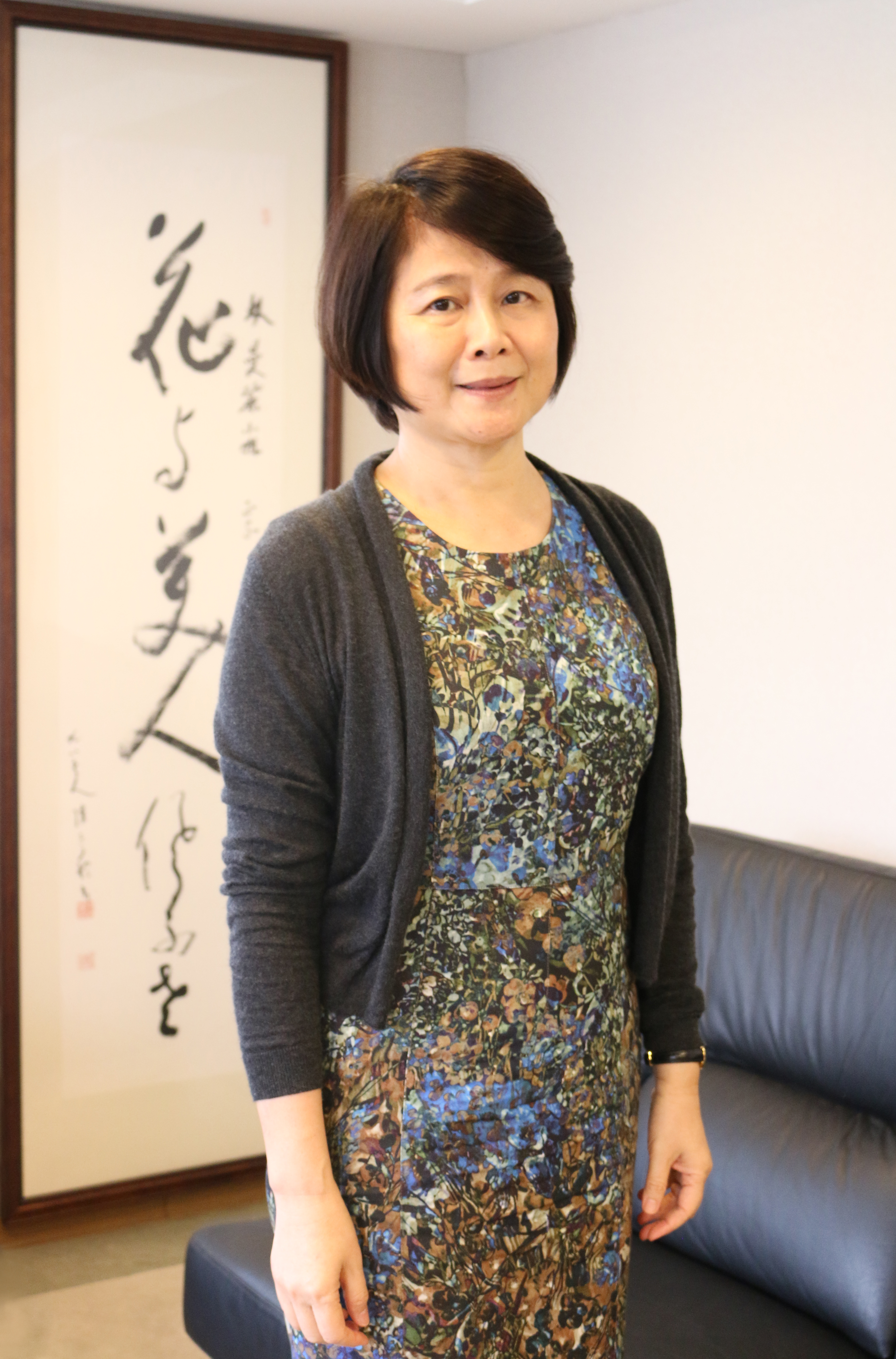 Professor Lin Mun Lee